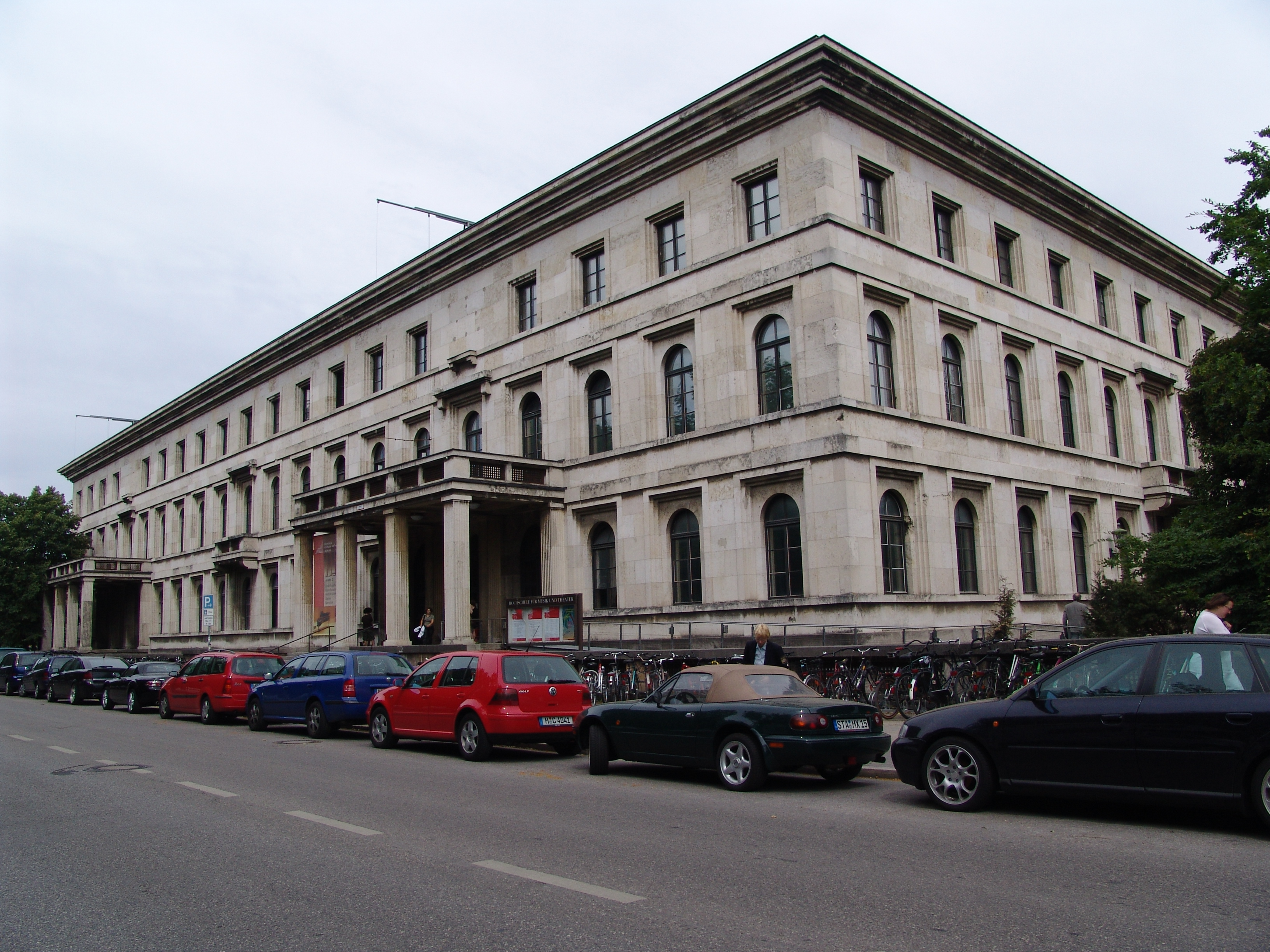 The Führerbau, a Nazi party building in the Königsplatz, Munich. The Munich Agreement was signed in 1938. Today it is a school for music and theatre called the “Hochschule für Musik und Theater München”. Architect: proposed by von Fischer and completed by von Klenze